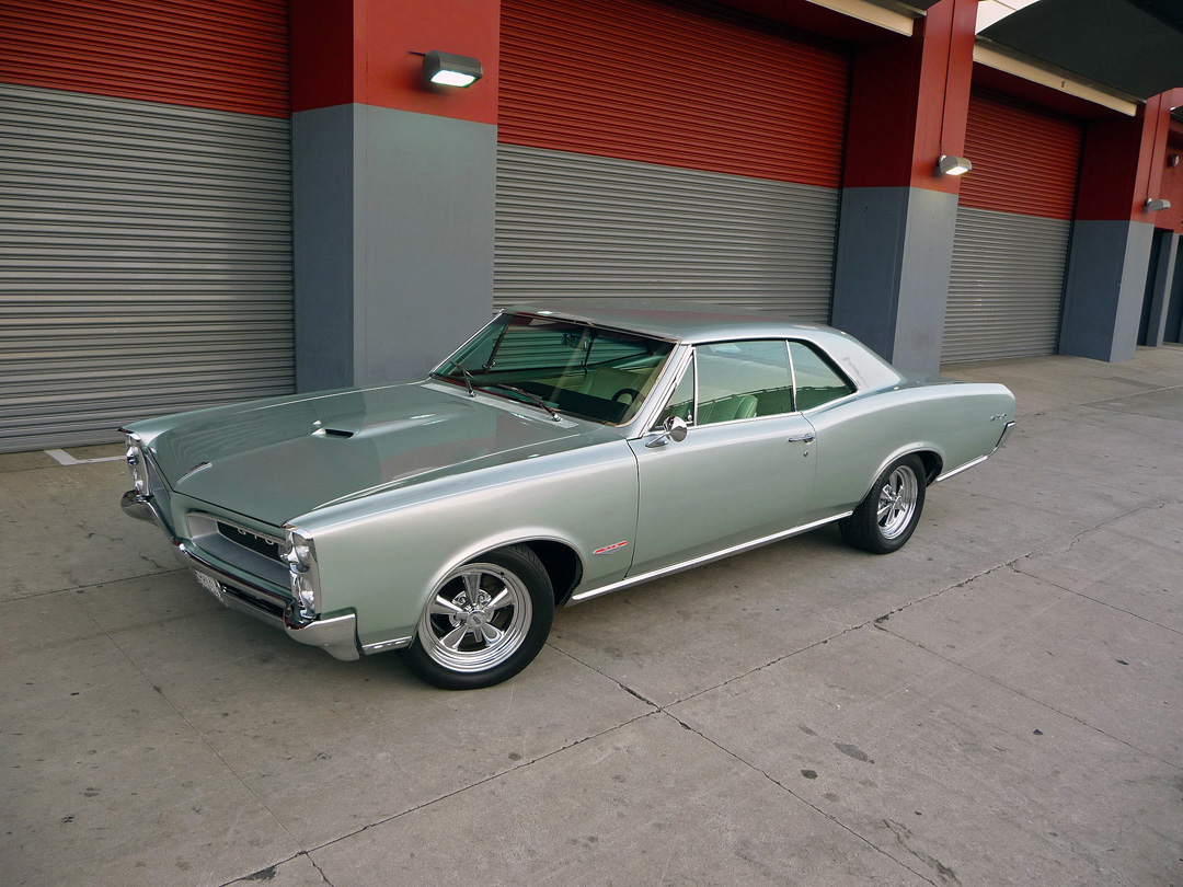 1966 Pontiac GTO, with non-stock wheels - frame off restoration by David Howitt of So Cal GTO (